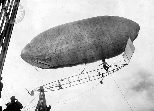 The 1904 Thomas Baldwin's "California Arrow" airship.